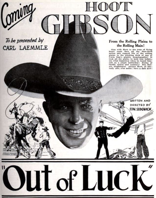 Advertisement for the American comedy film Out of Luck (1923) with Hoot Gibson, on page 31 of the July 21, 1923 Universal Weekly.